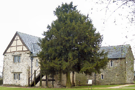 The Old Manor House The ancient manor house at Donington-le-Heath was derelict for many years in the 1950's and 60's, and was almost lost to posterity. Now owned by the County Council, it is a worthy museum to our ancient heritage and stages many events annually.